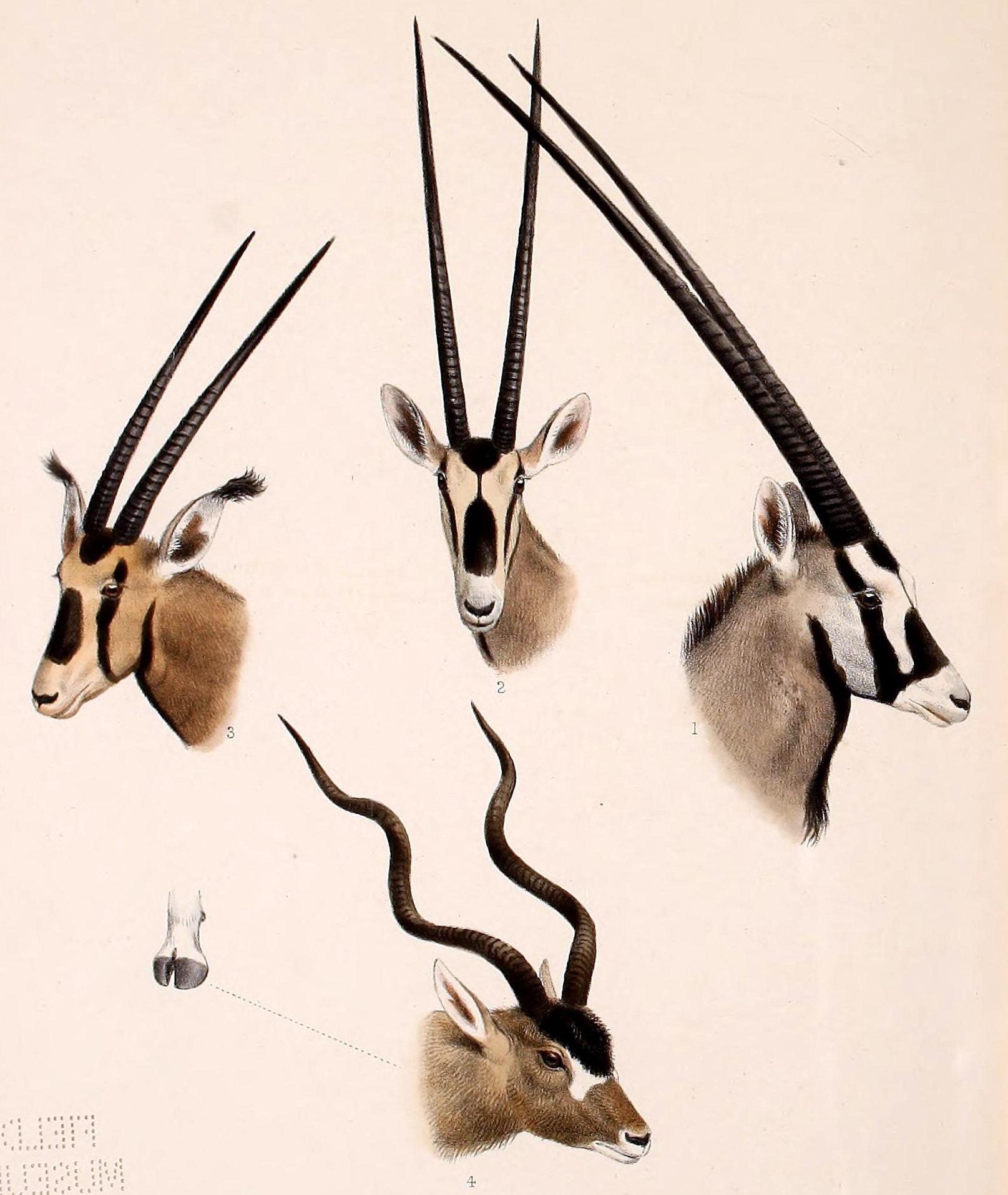 1: Gemsbuck 2: Beisa 3: Fringe-eared beisa 4: Addax head and hoof.